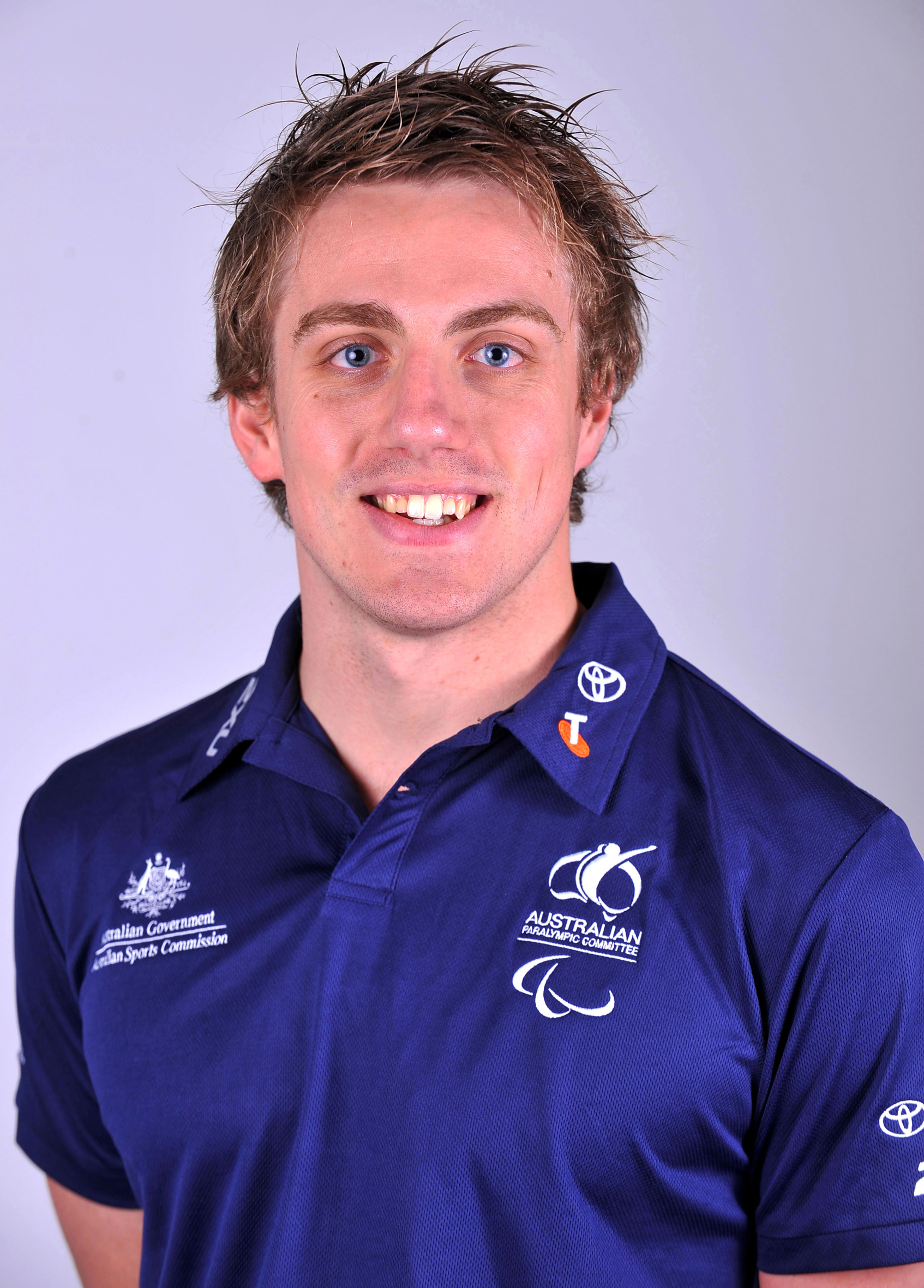 Portrait of Australian swimmer Matthew Cowdrey, 2012 Australian Paralympic (shadow) Team athlete